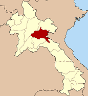 Map of Laos highlighting the province Xiangkhoang.